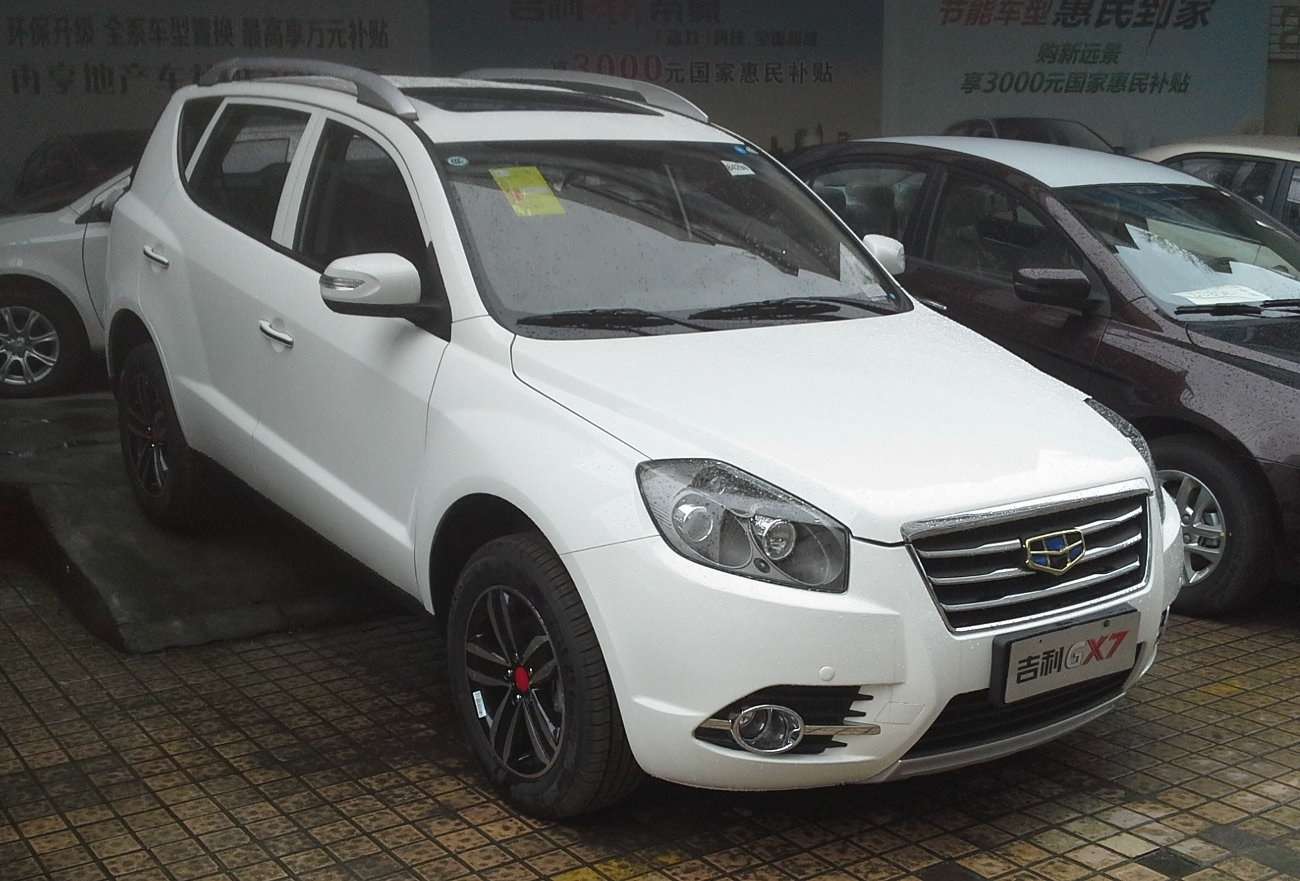 Geely GX7 photographed in Chengdu, Sichuan province, China.